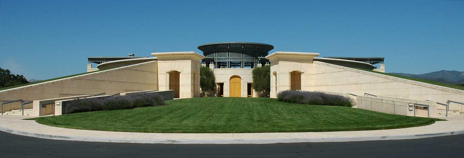 The Opus One Winery in Oakville (Napa Valley), California. Photo by Chuck Szmurlo taken June 14, 2005 with a Nikon D70 and a Nikon 18-70 lens.